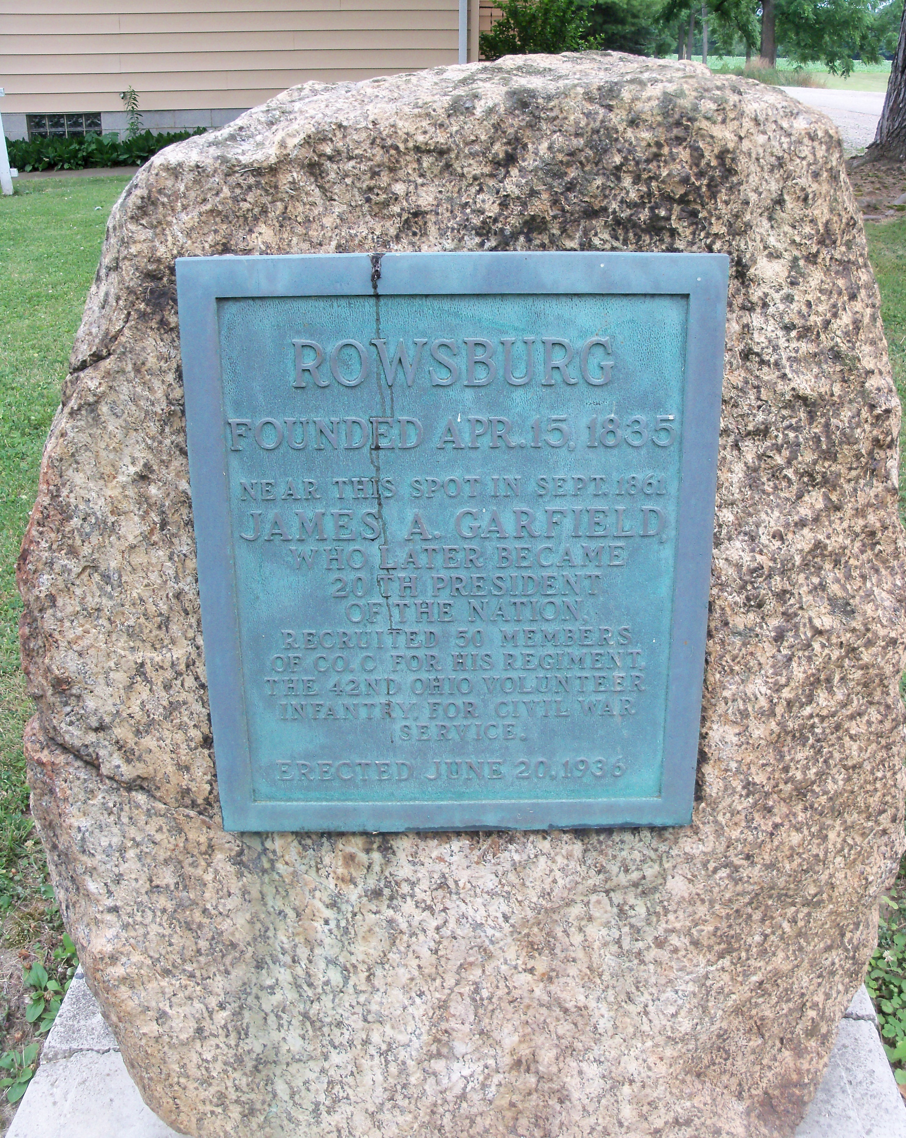 In Rowsburg, Ohio this monument was erected commemorating that James A. Garfield raised a company of the 42nd Ohio Infantry near this spot in 1861.